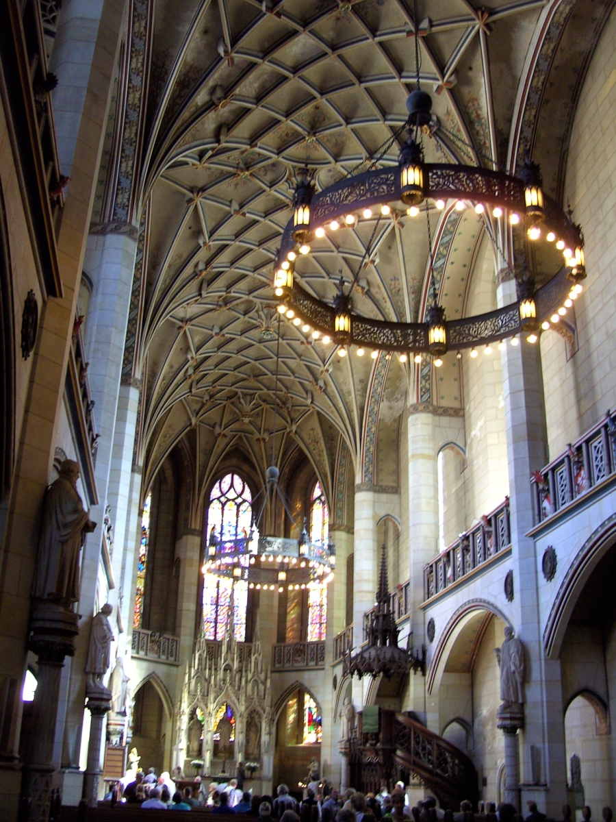 Inside the Nave of the Schlosskirche Wittenberg.